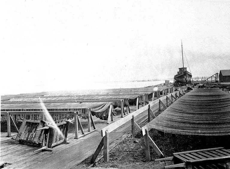 From John Cobb field notebook: Gill nets on racks, N.C. Subjects (LCSH): Fishing nets--Alaska--Nushagak; Gillnetting--Alaska--Nushagak